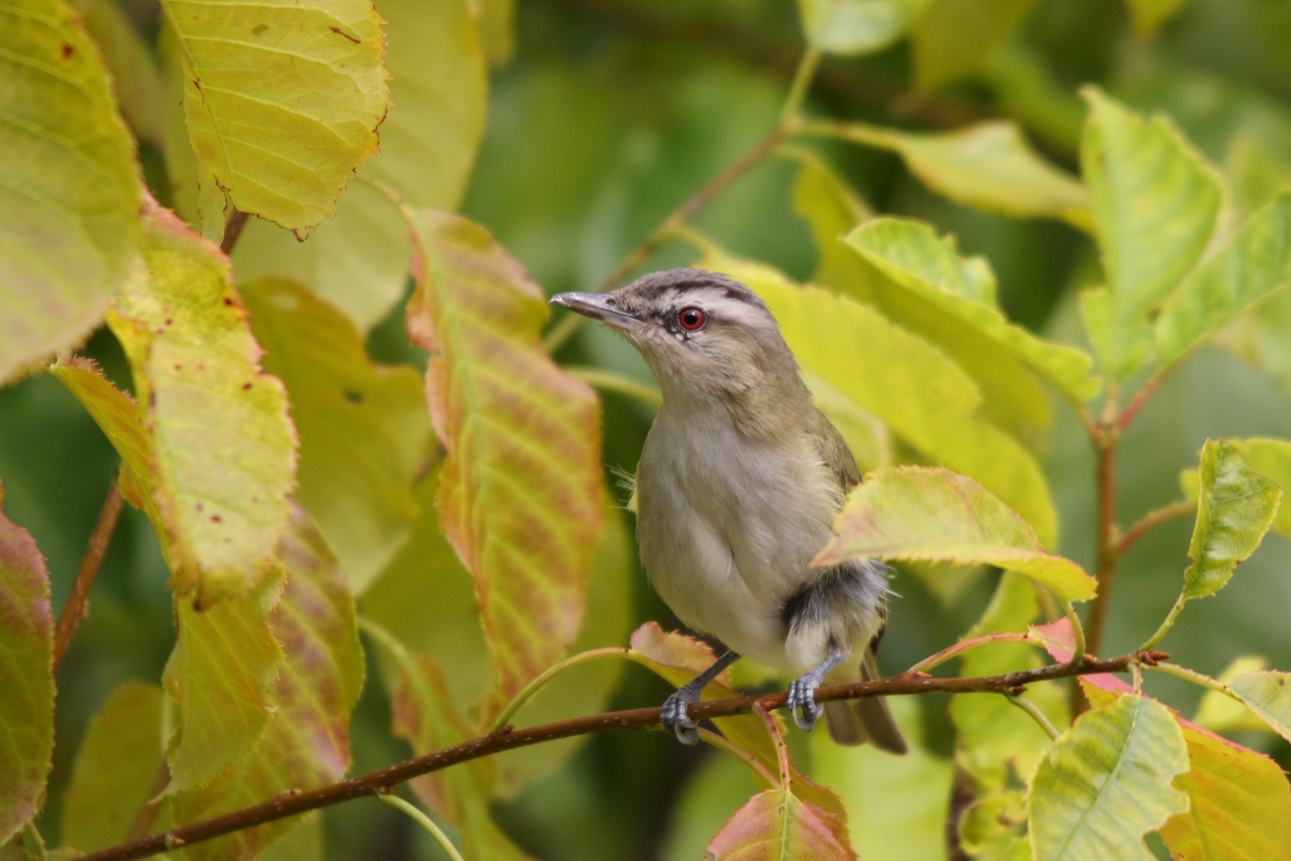 Red-eyed Vireo, Cap Tourmente National Wildlife Area, Quebec, Canada